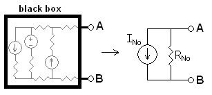 A general case for norton's equivalent circuit. Norton's_theorem